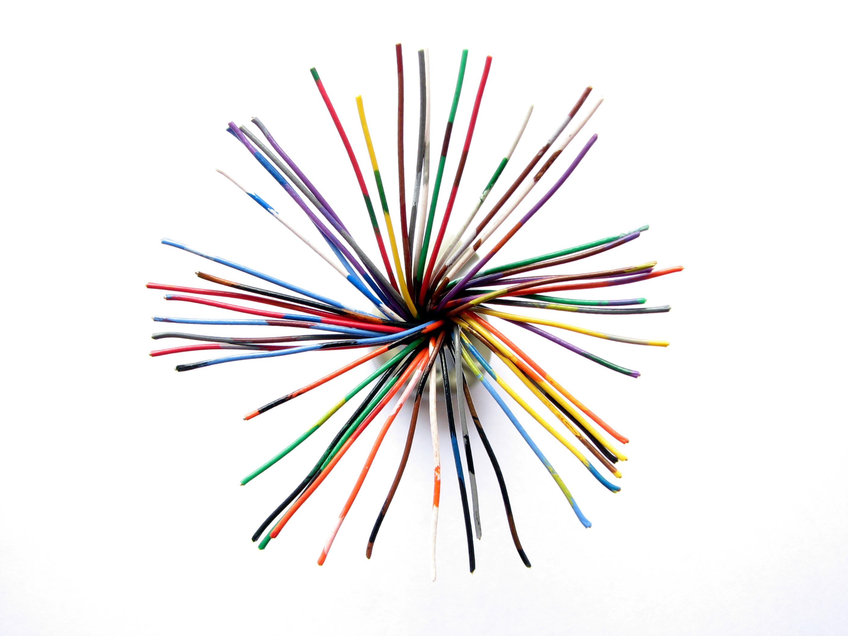 Singlecore cable, 25 pairs, 50 conductors.